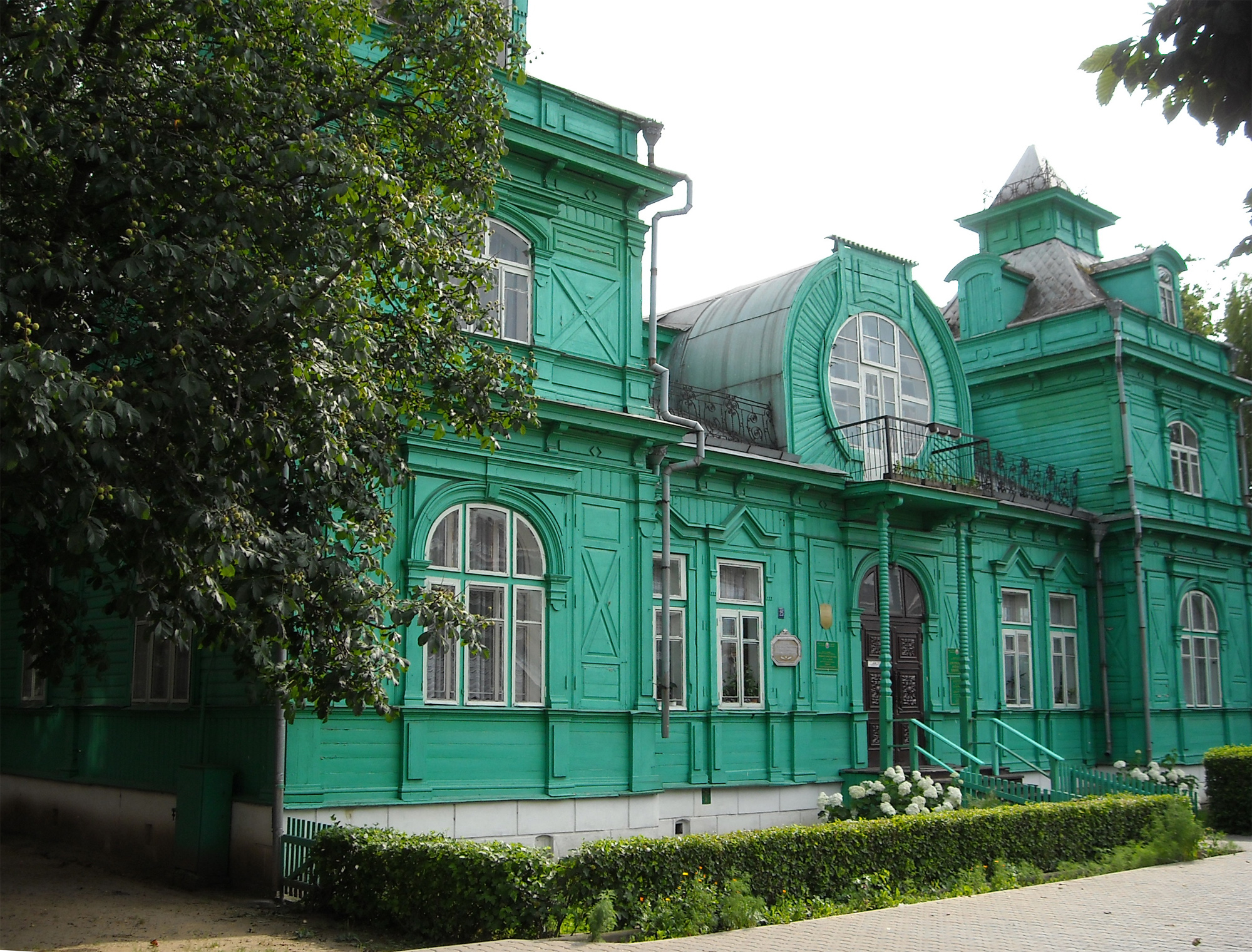 Беларуская (тарашкевіца): Будынак. г. Бабруйск This is a photo of Belarusian heritage monument. Reference number: 513Г000057 ( WLM)